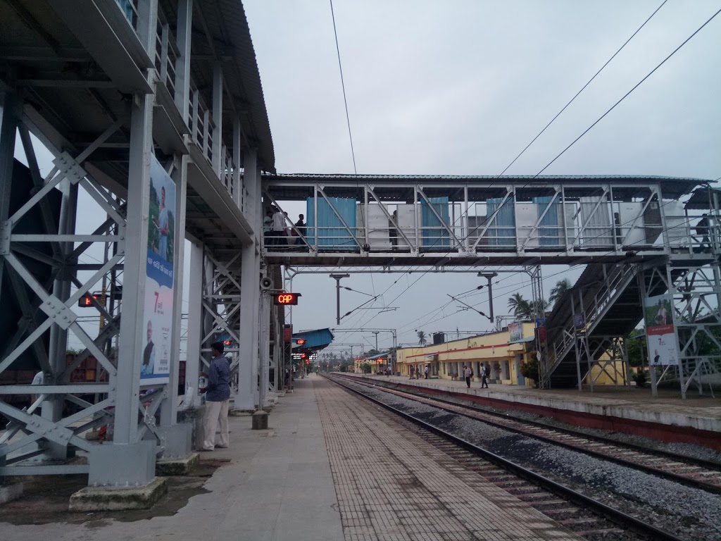 This is the Picture of chatrapur main railway station ଓଡ଼ିଆ: ଏହା ହେଉଛି ଛତ୍ରପୁର ମୁଖ୍ୟ ରେଳ ଷ୍ଟେସନର ଚିତ୍ର